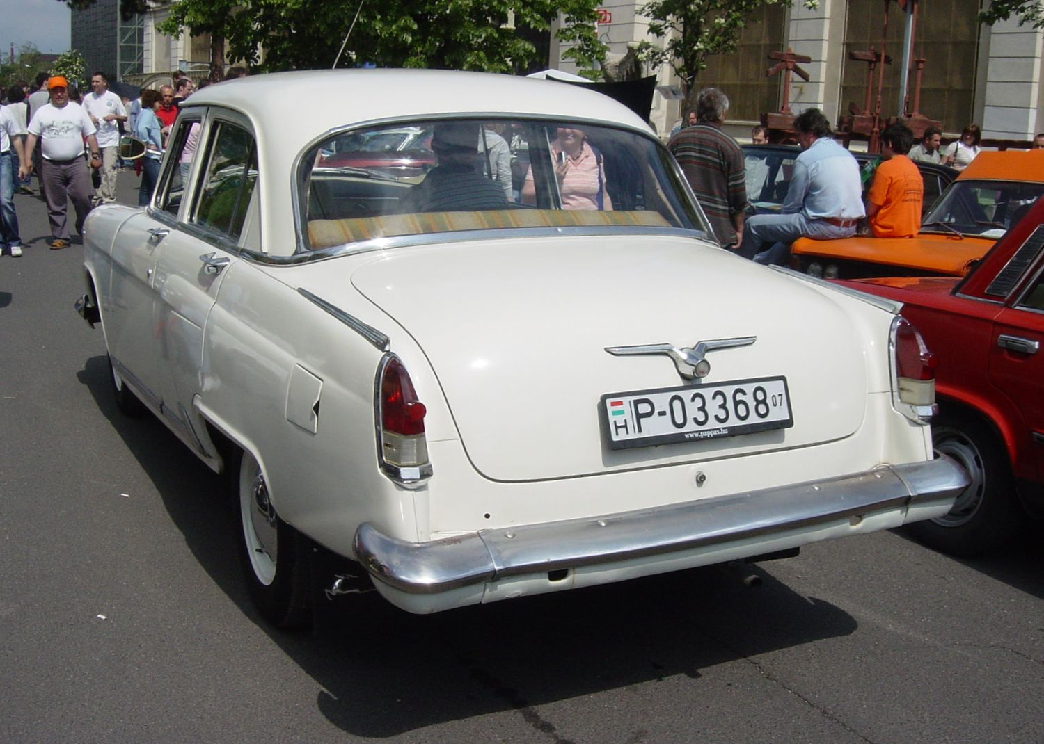 Volga GAZ-M-21, Series Three, produced between 1962 and 1965 — during the Szocialista Jáműipar Gyöngyszemei 2008.